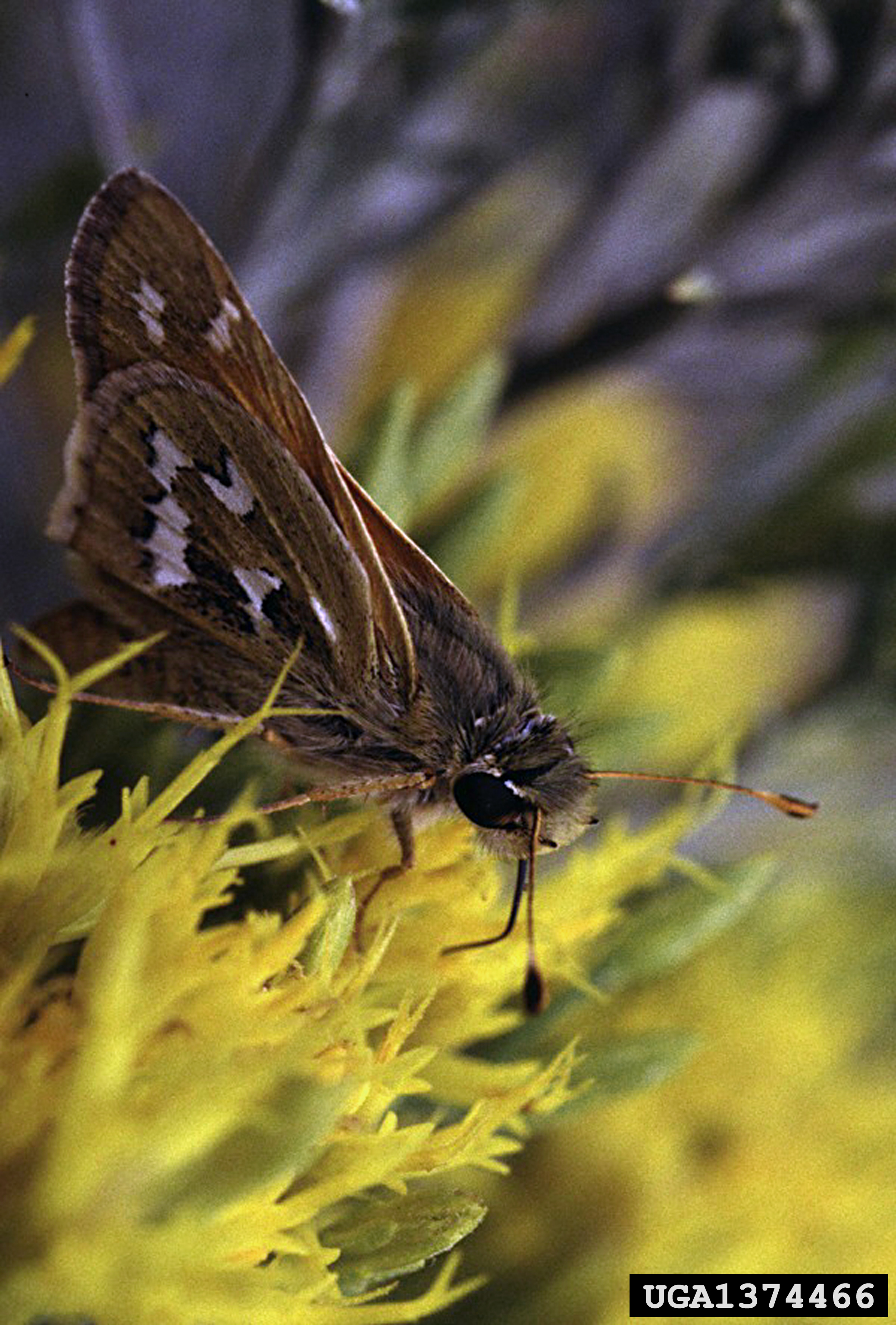 Hesperia juba. United States.